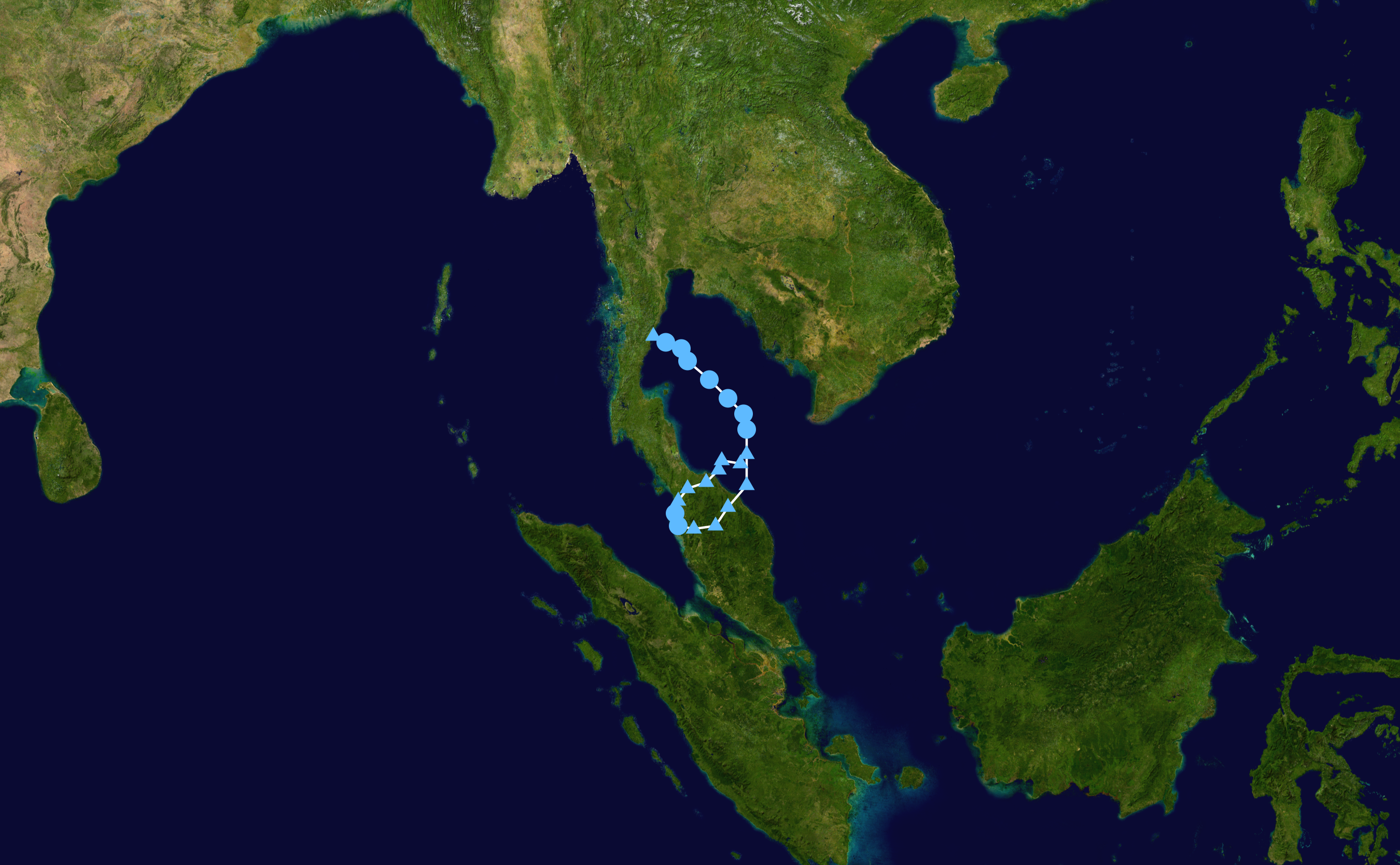 Track map of Tropical Depression 29W of the 2017 Pacific typhoon season. The points show the location of the storm at 6-hour intervals. The colour represents the storm's maximum sustained wind speeds as classified in the Saffir–Simpson scale (see below), and the shape of the data points represent the nature of the storm, according to the legend below. Saffir–Simpson scale Tropical depression≤38 mph≤62 km/h Category 3111–129 mph178–208 km/h Tropical storm39–73 mph63–118 km/h Category 4130–156 mph209–251 km/h Category 174–95 mph119–153 km/h Category 5≥157 mph≥252 km/h Category 296–110 mph154–177 km/h Unknown Storm type Tropical cyclone Subtropical cyclone Extratropical cyclone / Remnant low / Tropical disturbance / Monsoon depression